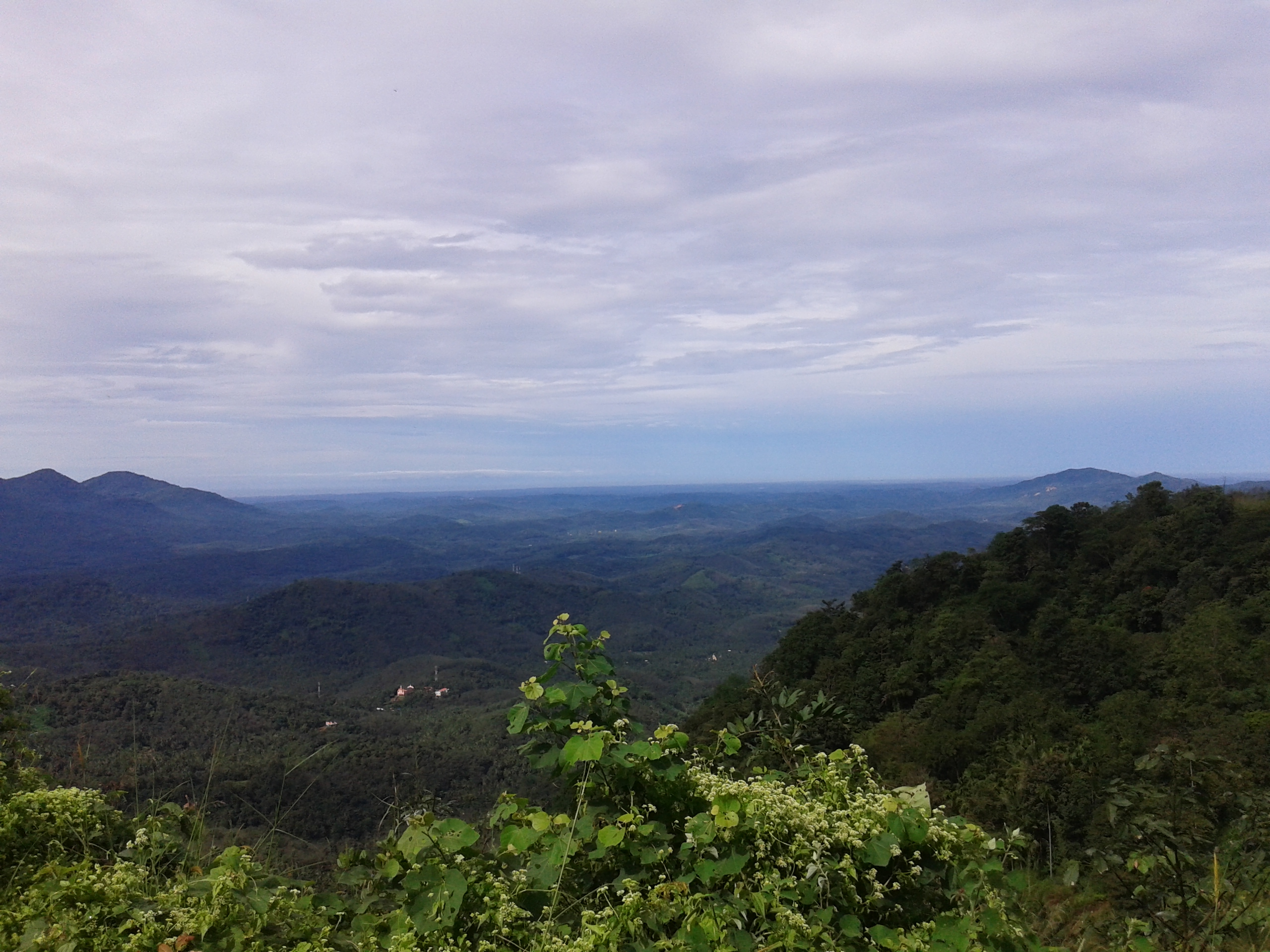 Elapeedika